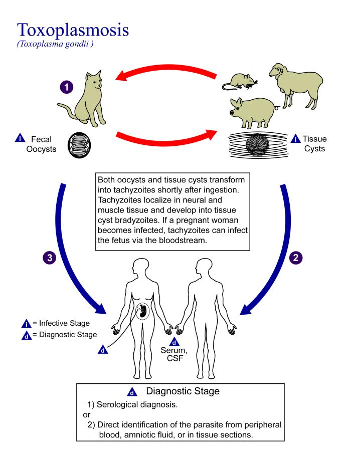 This is an illustration of the life cycle of Toxoplasma gondii, the causal agent of Toxoplasmosis. For a complete description of the life cycle of Toxoplasma gondii, the causal agent of Toxoplasmosis, select the link below the image or paste the following address in your address bar